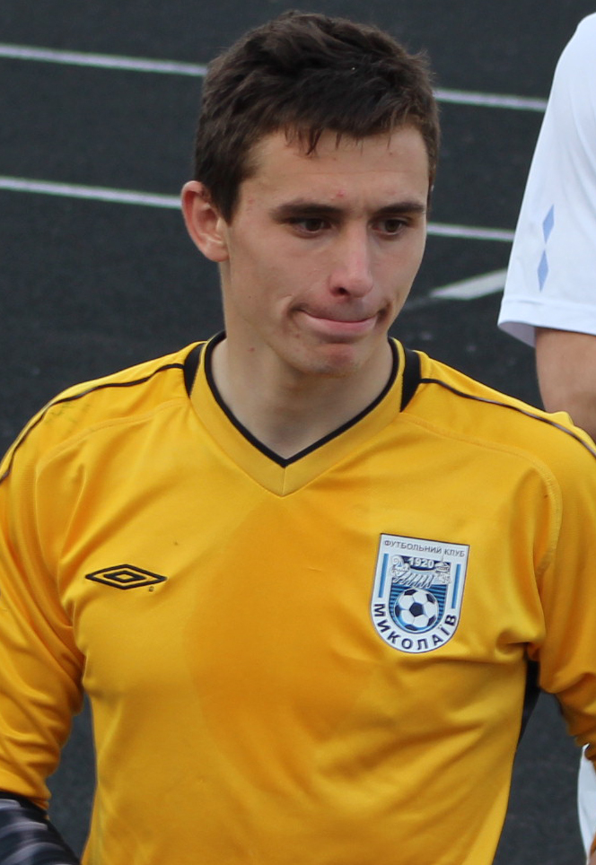 Valeri Voskonyan